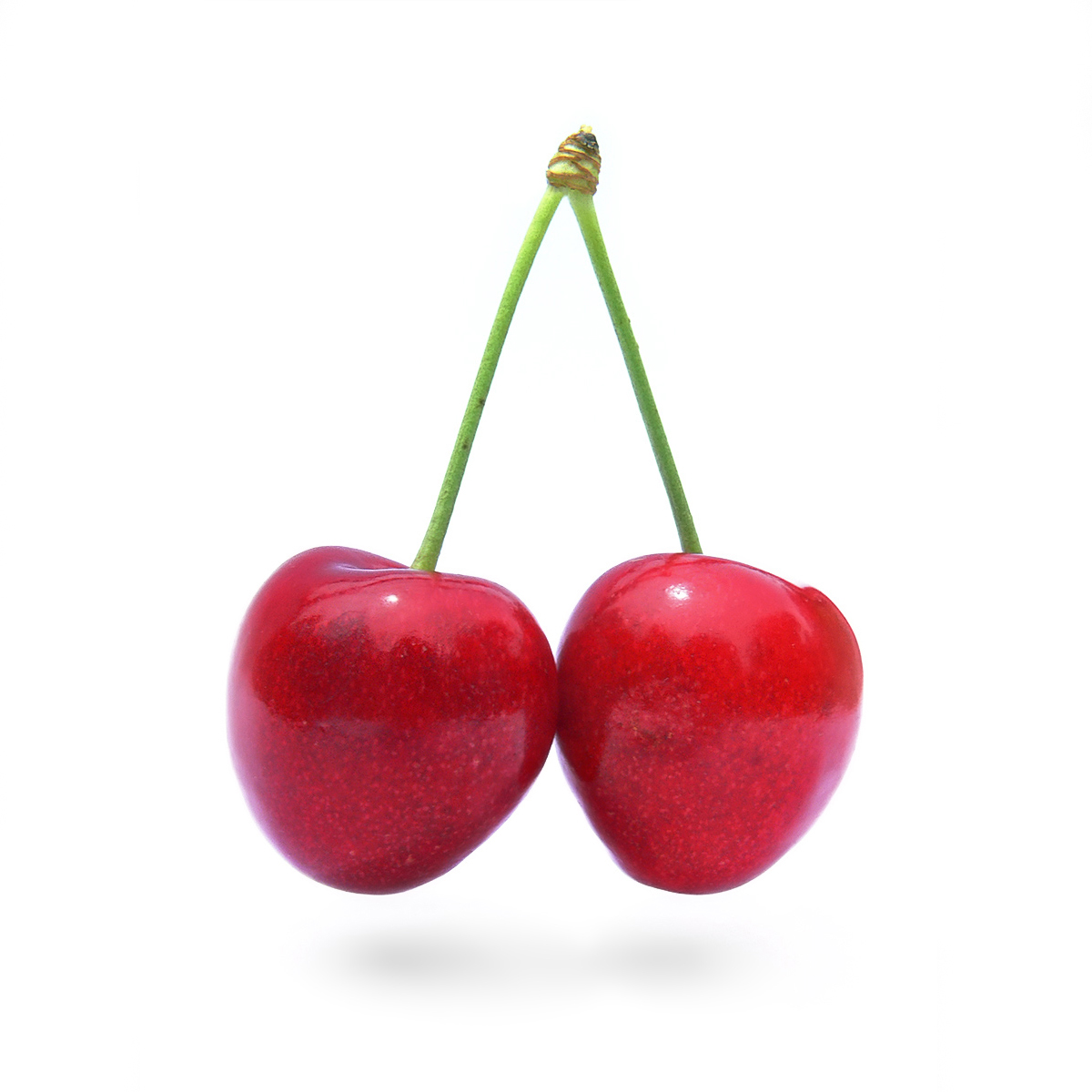 A pair of cherries from the same stalk. Prunus avium 'Stella'.